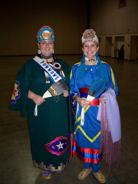 The Senior Princess/Ambassador of the Pee Dee Indian Nation of Beaver Creek (right) and the Princess at the American Indian Science and Engineering Society (AISES) conference in Phoenix, Arizona, October 2007.